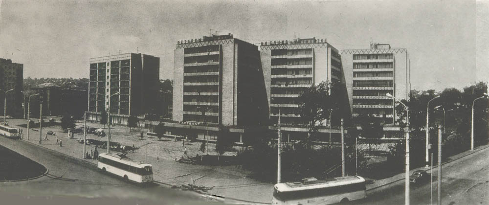 photo